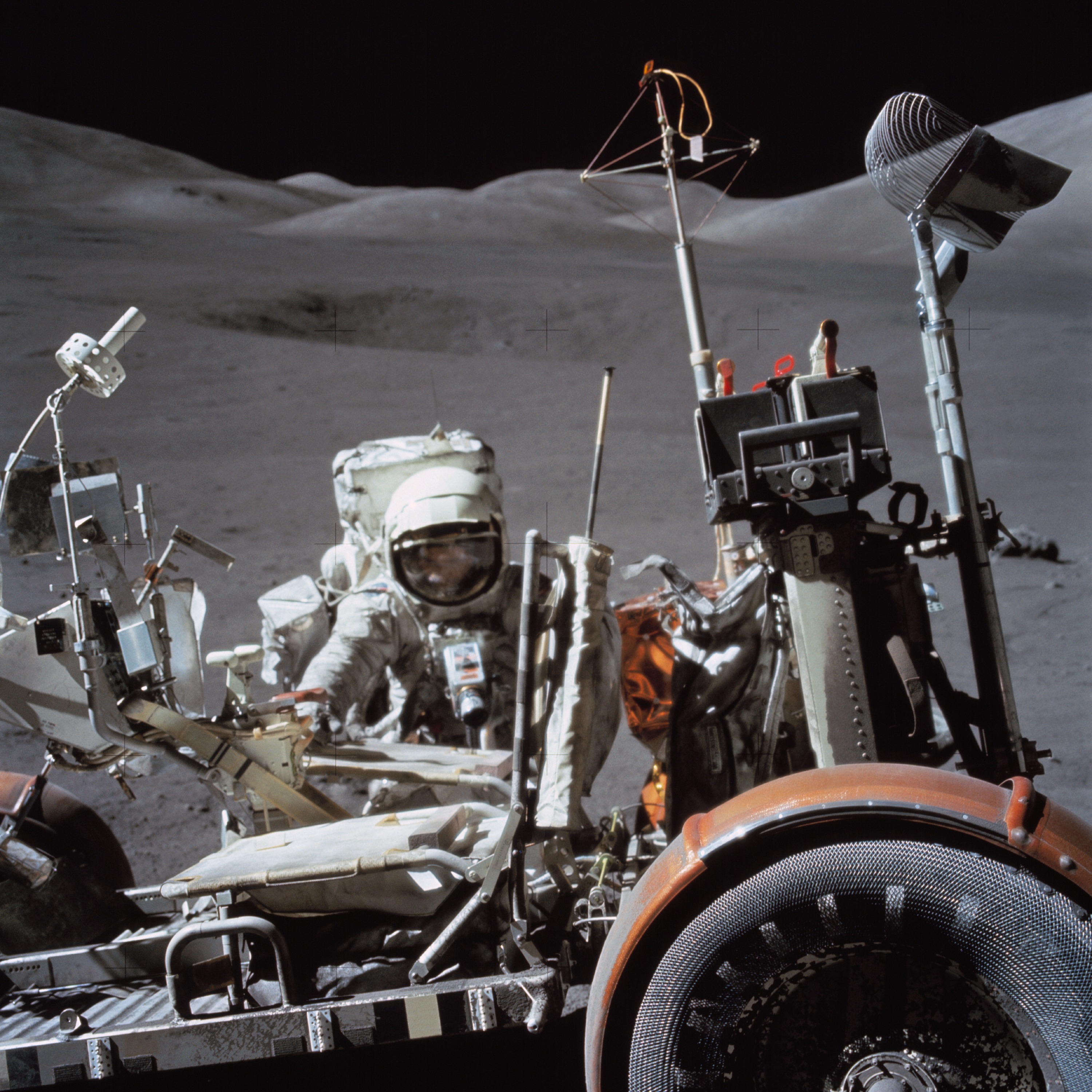 Apollo 17 Station 6 lunar rover : This photo shows the rake and the seismic charge transporter behind conductors seat and, behind passenger's seat, the SEP receiving antenna. In the gap behind the seats, the thermal cover for the top of the SEP receiver hangs down in the open position..LRV Sampler can be seen on the far side of the console and the maps can be seen just below the low-gain antenna.